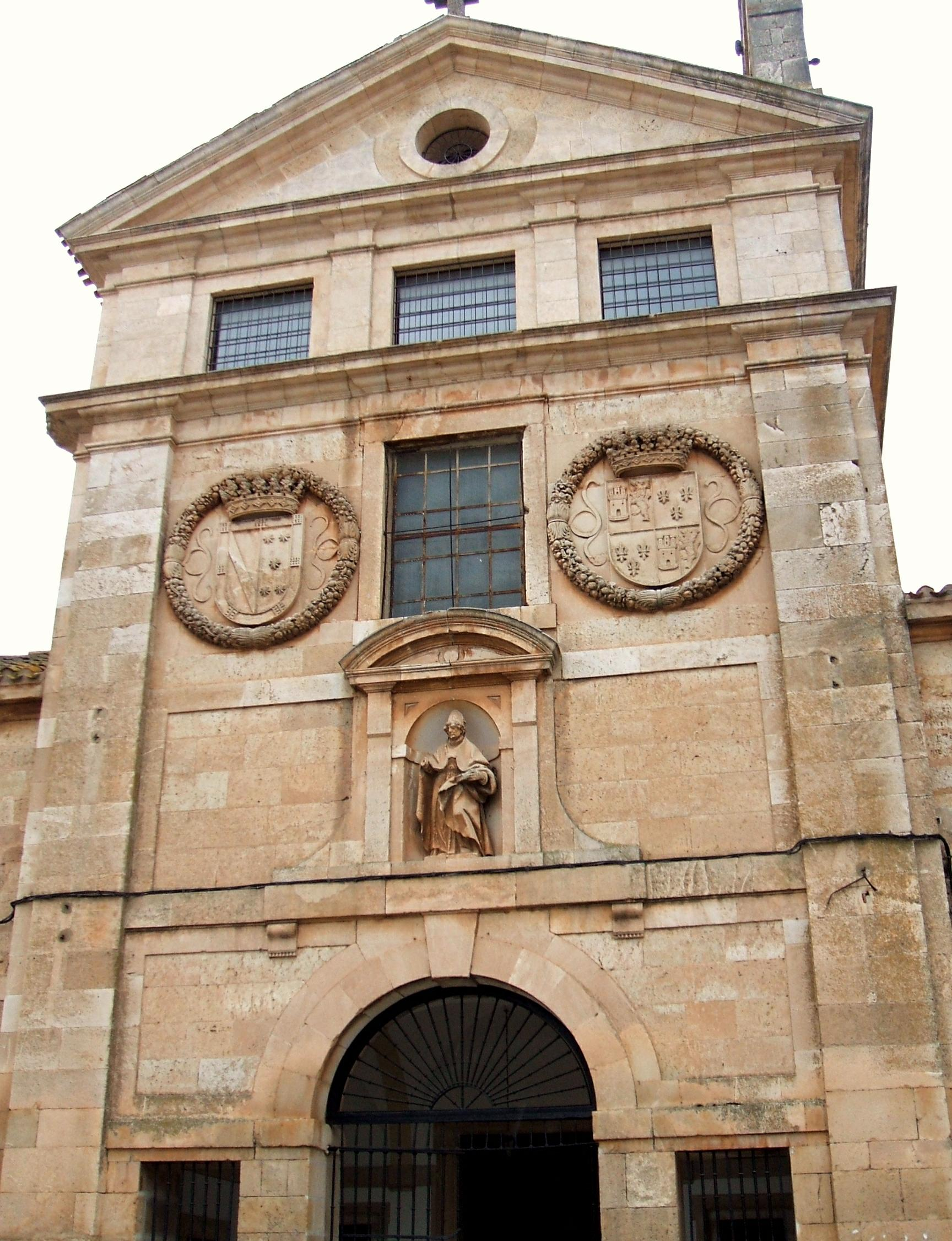 Fachada del Convento de San Blas, en Lerma (Burgos, Castilla y León, España)